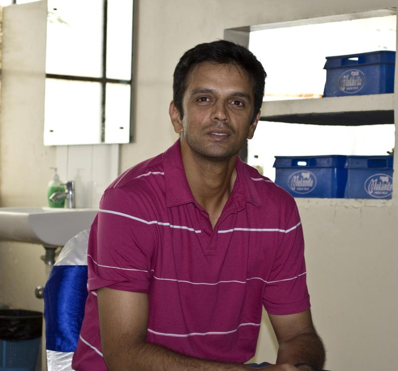 Indian cricketer Rahul Dravid